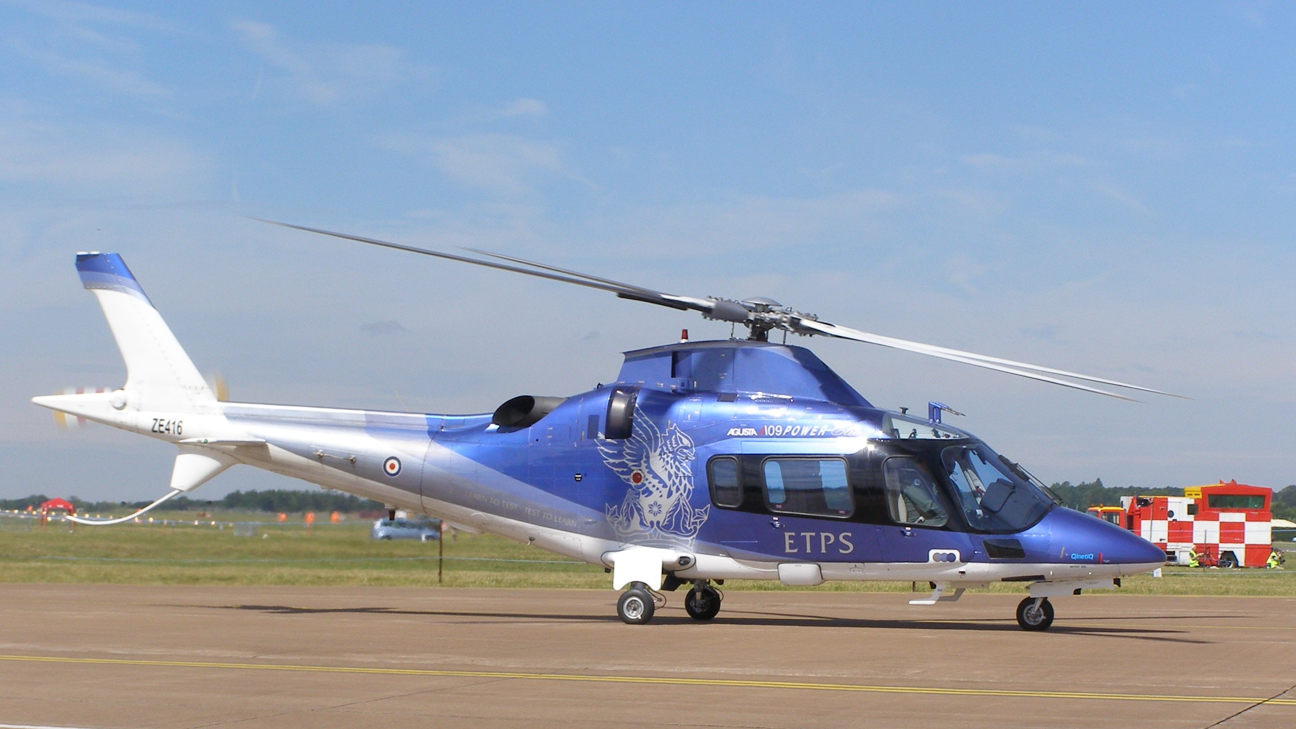 ZE416 is an Agusta A109E helicopter built in 2004 and operated by the Empire Test Pilots' School. It is departing RAF Fairford after being on display at the 2010 Royal International Air Tattoo.